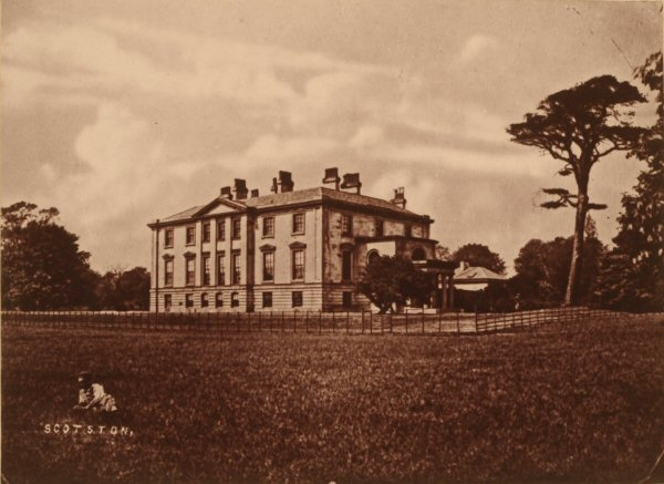 Scotstoun - house of the Oswalds - from 1878 book The old country houses of the old Glasgow gentry John Guthrie Smith and John Oswald Mitchell